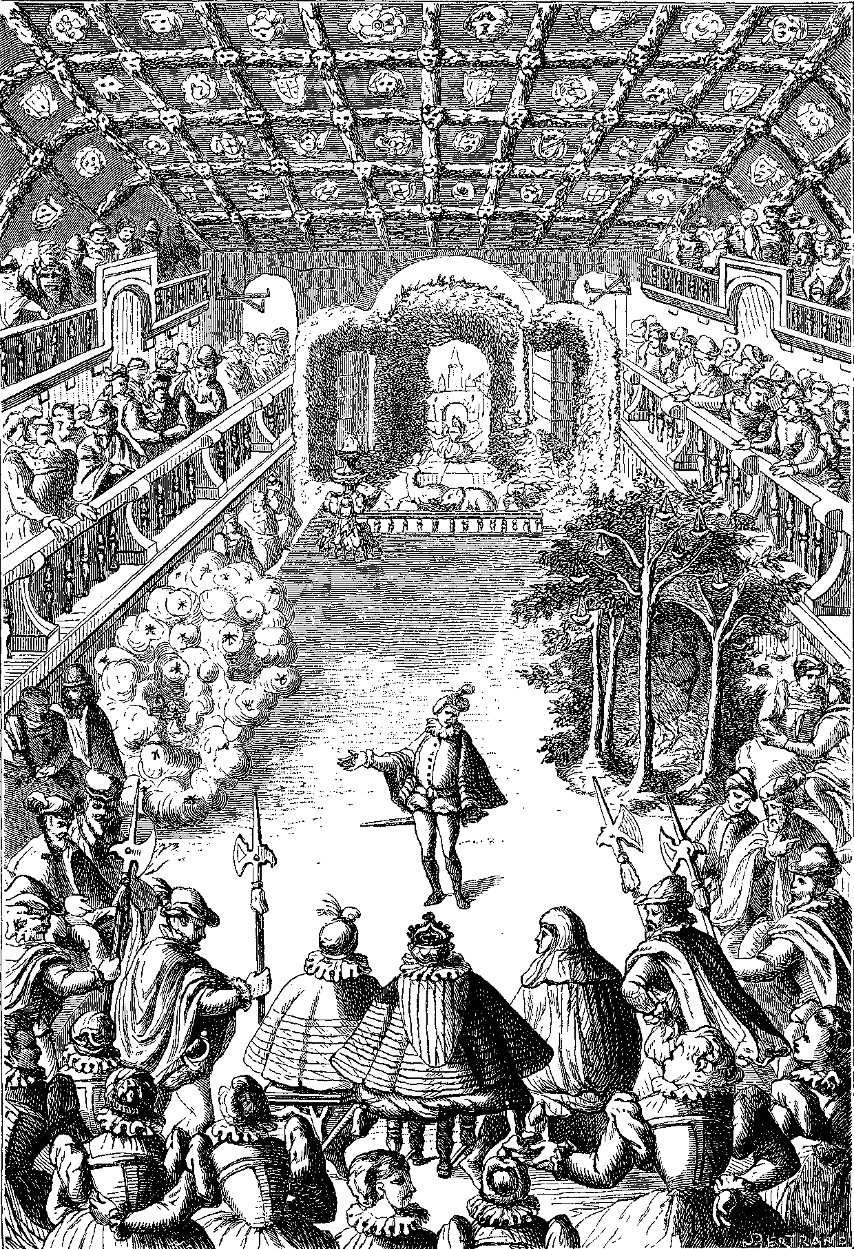 Representation of a Ballet before Henri III. and his Court, in the Gallery of the Louvre. Re-engraving from an original on Copper in theBallet comique de la Royne by Balthazar de Beaujoyeulx (Paris: Ballard,1582). According to T.E. Lawrenson, The French Stage and Playhouse in the Seventeenth Century (2nd ed., 1986), p. 184, this performance took place in the Petit Bourbon.